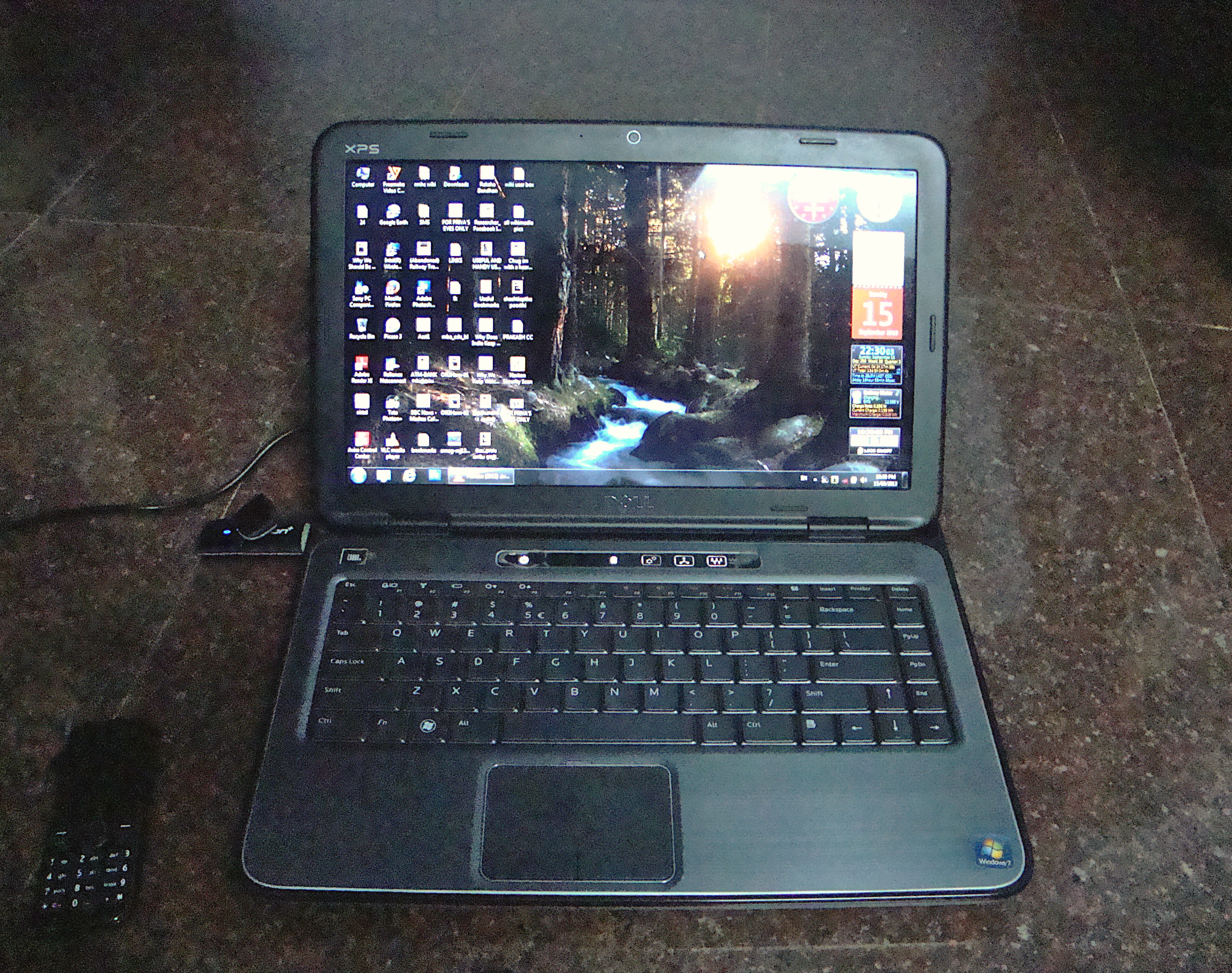 Photo of Dell XPS L401X